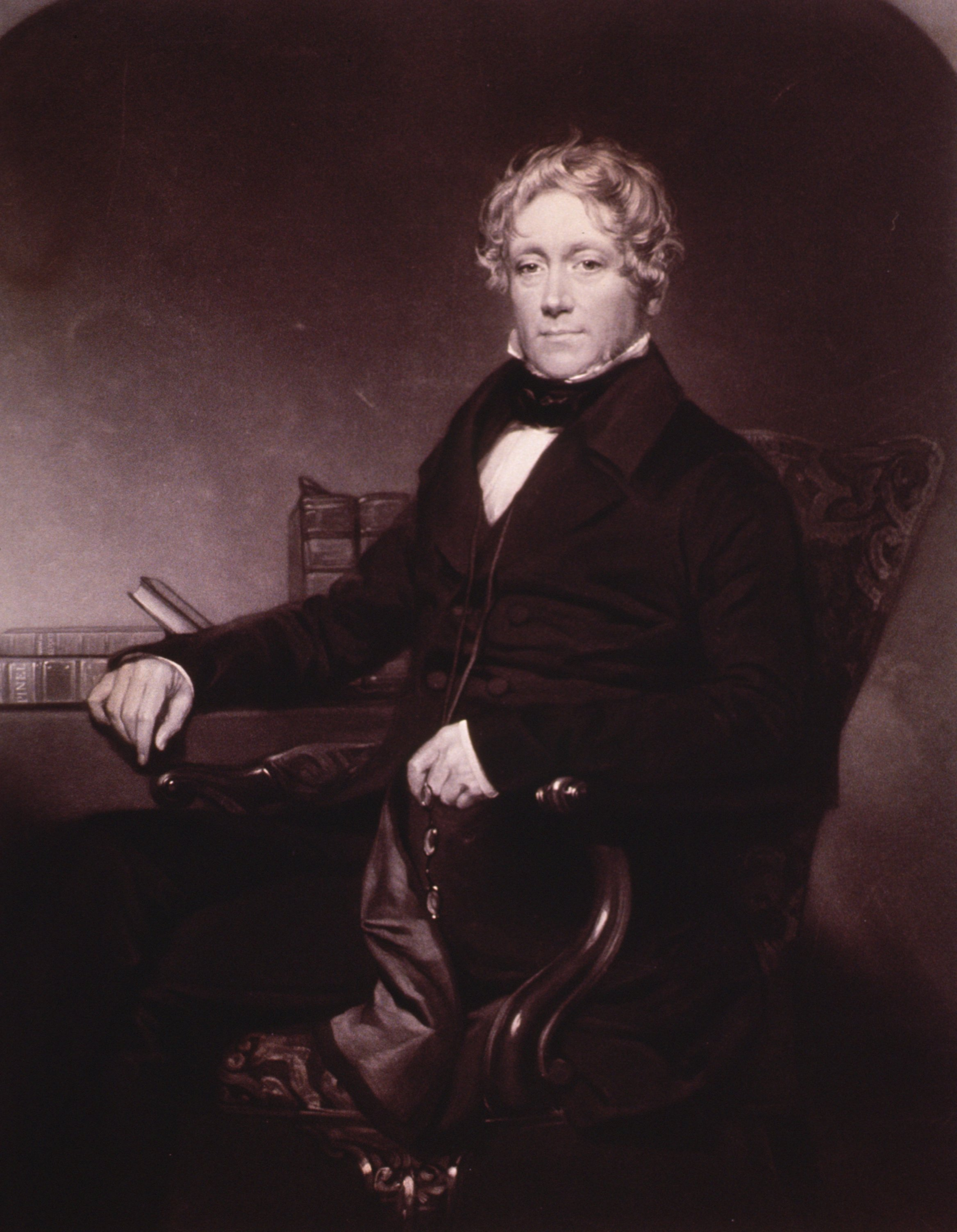 John Conolly